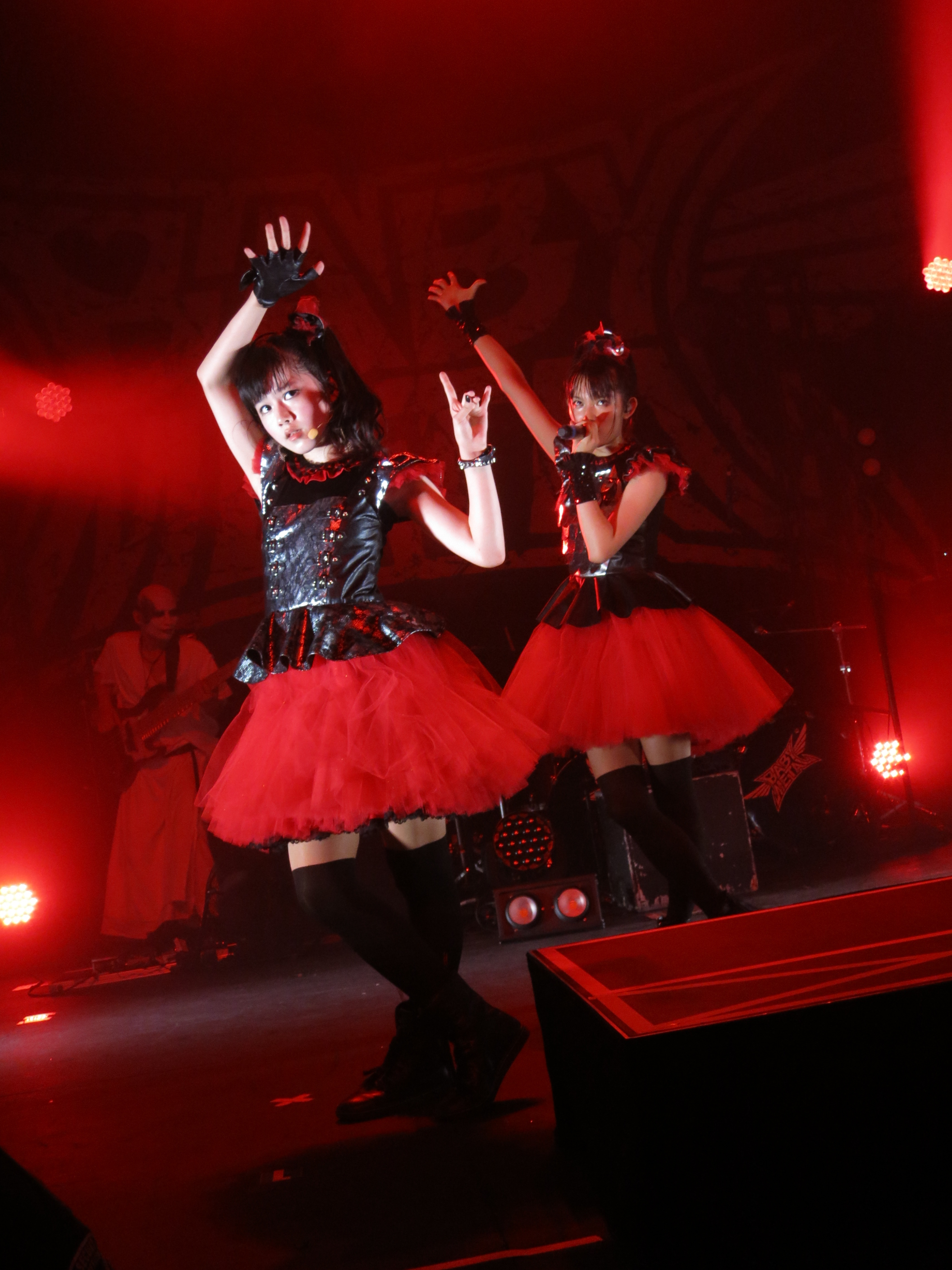 Babymetal performs live at The Fonda Theatre in Los Angeles, CA, USA.